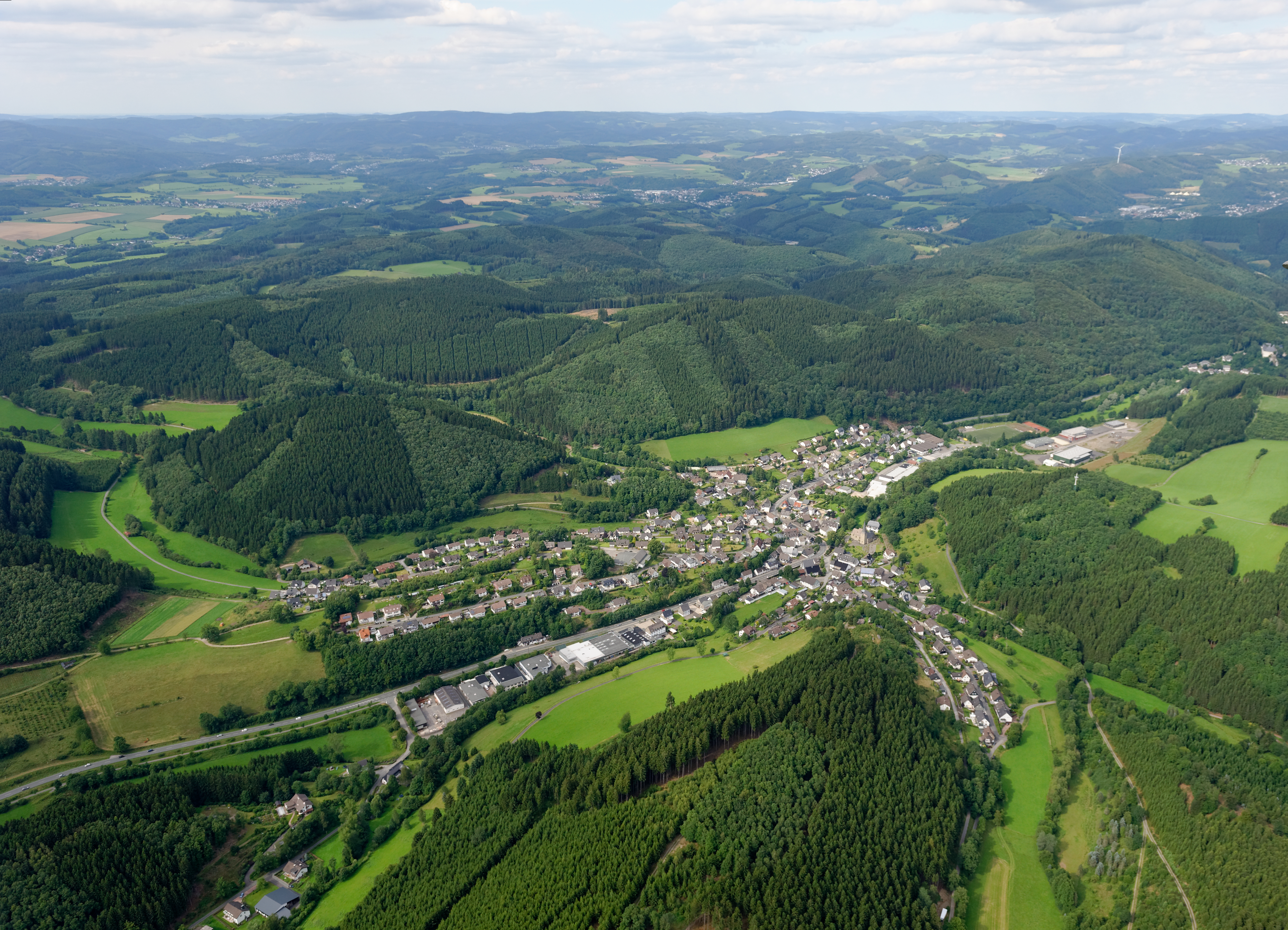 The making of this document was supported by the Community-Budget of Wikimedia Germany. Lennestädter Ortsteil Kirchveischede